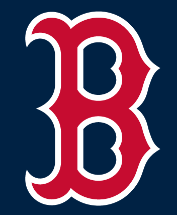 Boston Red Sox Cap Logo